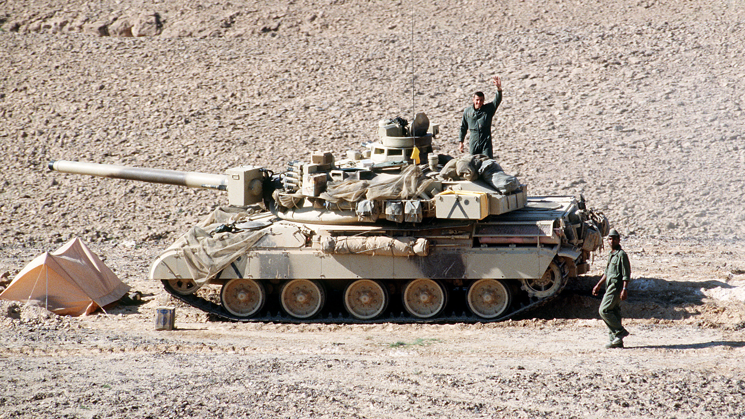 A crew member waves to the camera from the back of his AMX-30 main battle tank of the French 6th Light Armored Division bivouaced near Al-Salman during Operation Desert Storm.